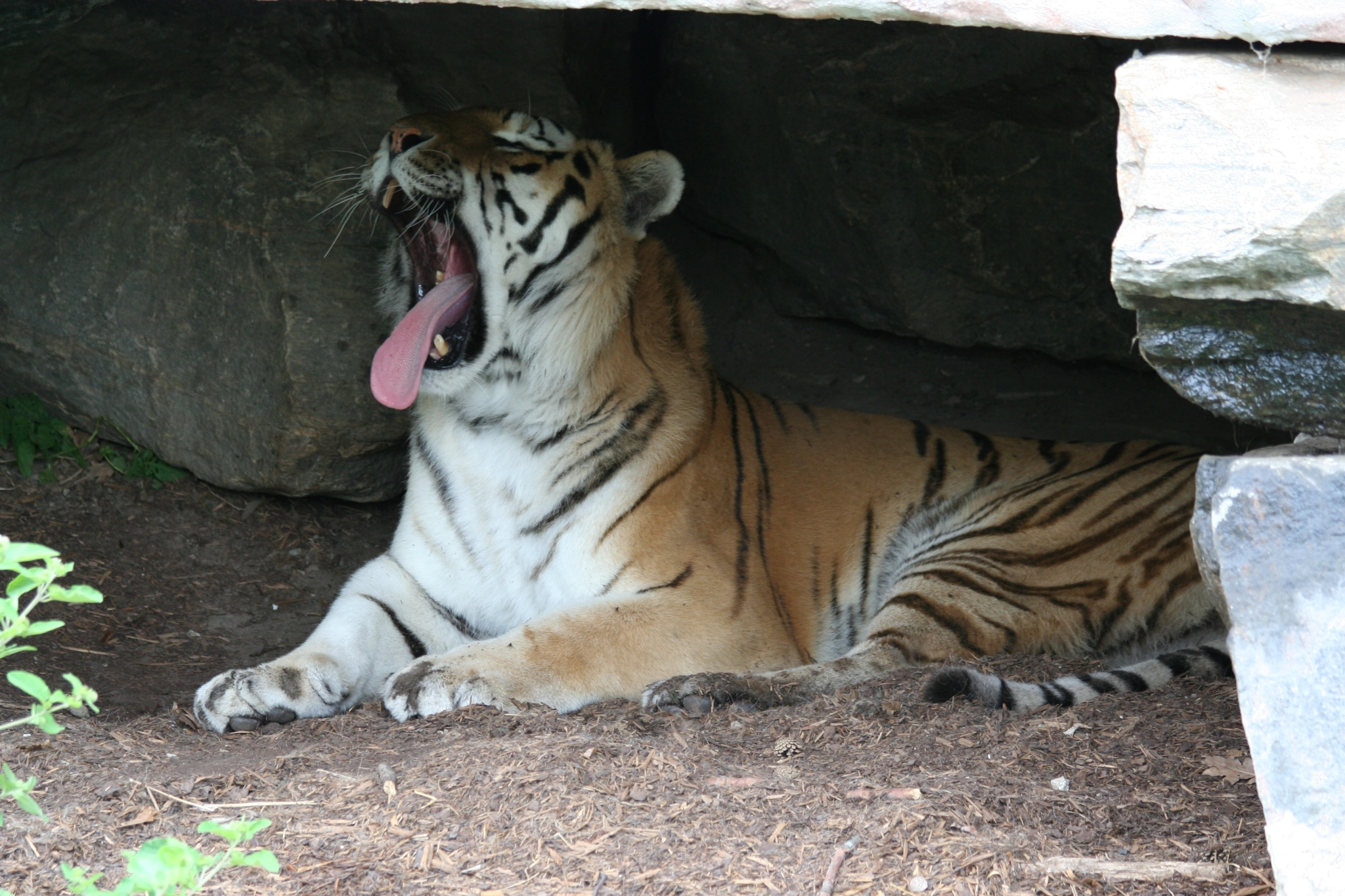 Siberian Tiger yawning. Taken at the Toronto Zoo, with a Canon EOS 350D & 70-300mm f4-5.6 IS USM lens. – Ber'Zophus